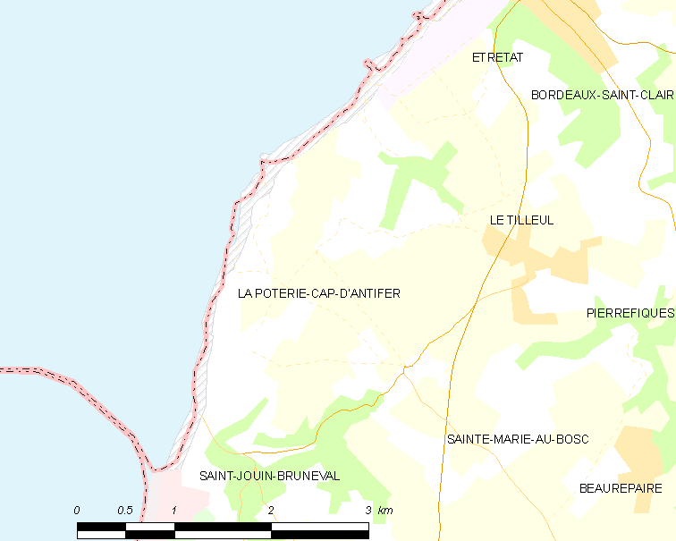 Map of French municipality La Poterie-Cap-d'Antifer